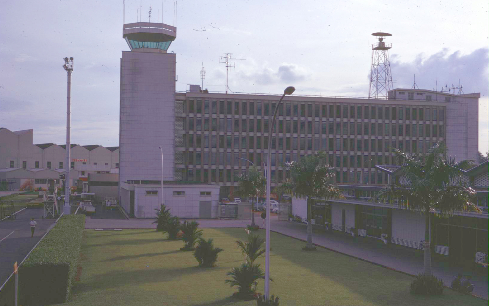 Singapore International Airport control tower and terminal building, photographed February 1969 × July 1971.